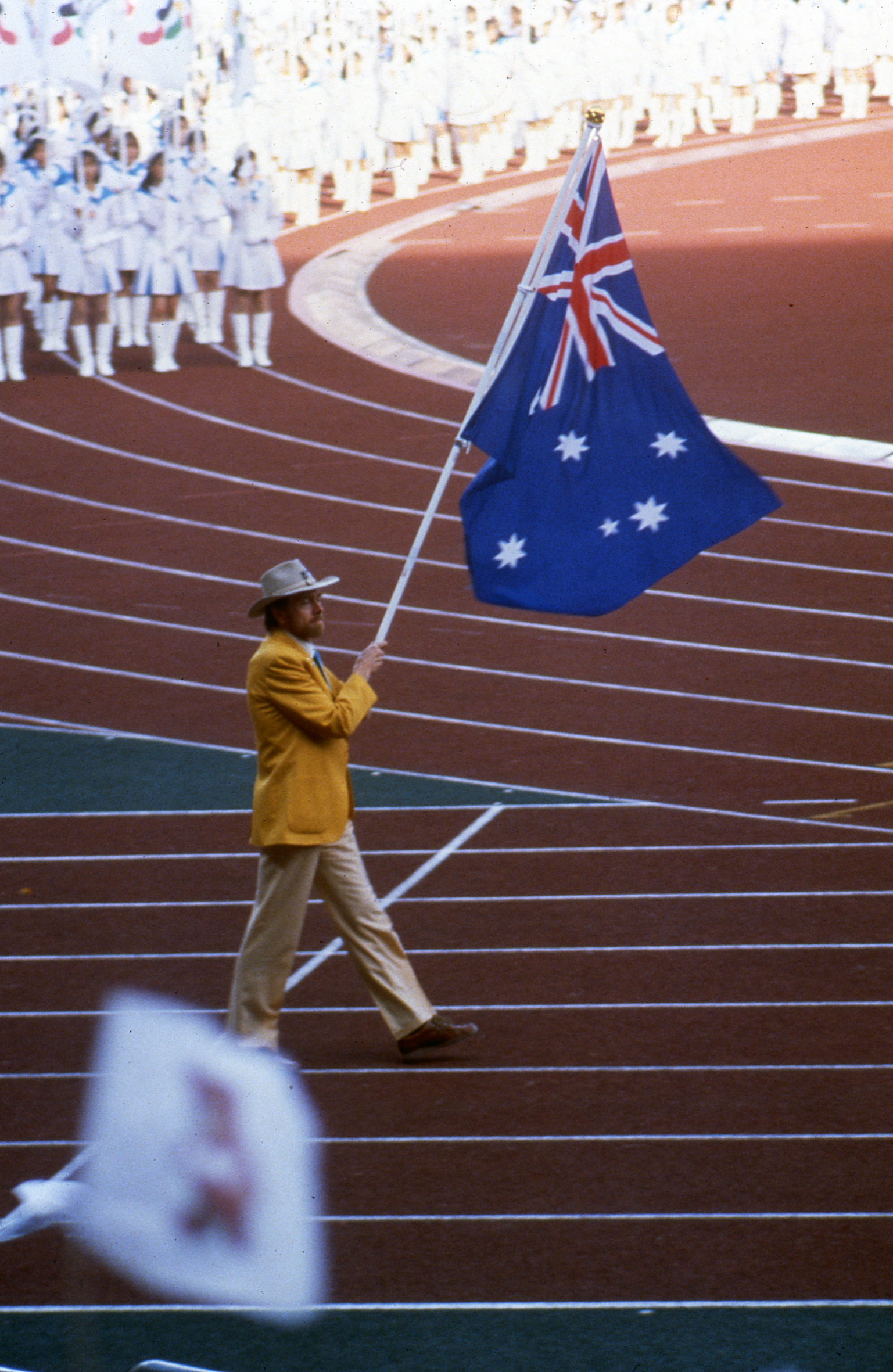 Australian team flagbearer Paul Croft during opening ceremony of 1988 Seoul Paralympic Games